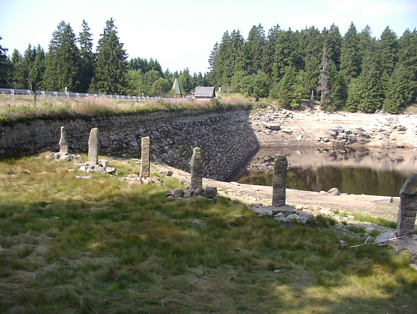 Upstream wall of the Oderteich Dam during low water. In the foreground: granite markers in front of the overflow section. Oderteich Reservoir, Harz Mountains, Lower Saxony, Germany